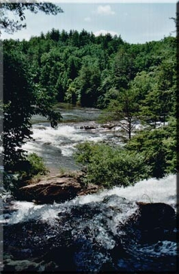 Chattooga River, Rabun County, Georgia. Transwiki approved by: User:Dmcdevit. This image was copied from en.